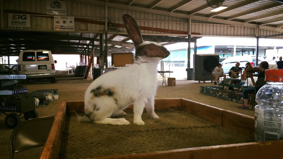 This is a picture of a Black Junior Buck Rhinelander taken by Christa Deines, Sunnyside Farm, at the 2015 Johnson County Fair.